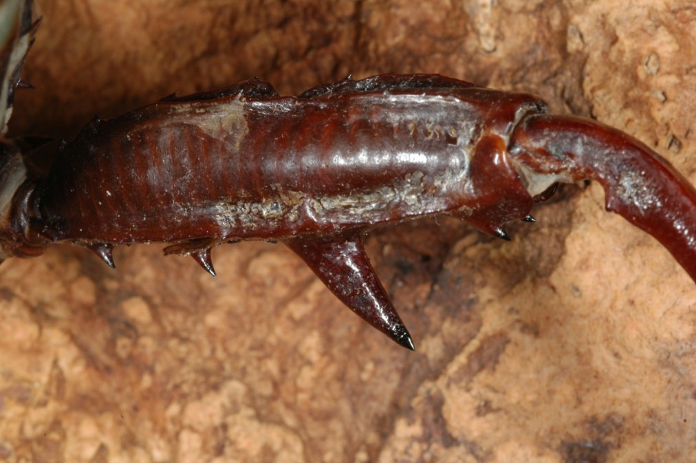 Eurycantha ssp.